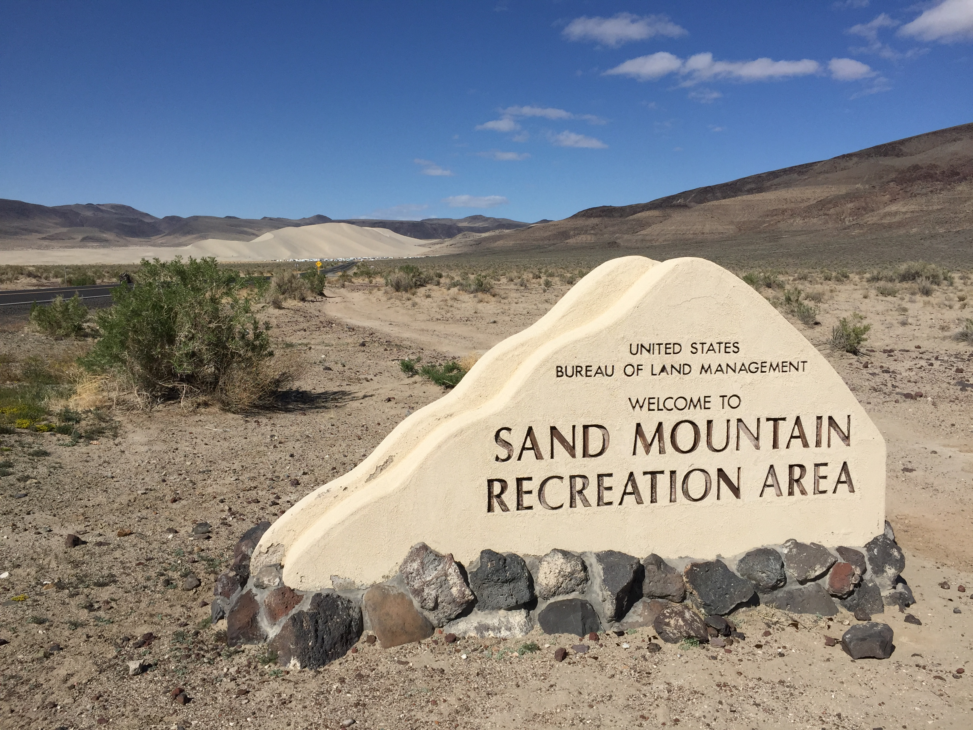 Sign for Sand Mountain Recreation Area with Sand Mountain, Nevada visible in the background